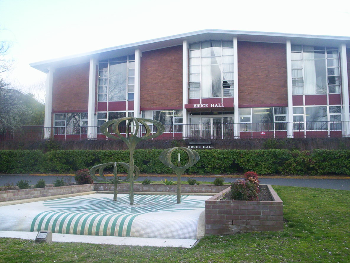 Untitled work by Bert Flugelman (1966-1967) with Bruce Hall of Australian National University in the background. Canberra, Australia. I took the photo Cfitzart 23:41, 2 September 2005 (UTC)